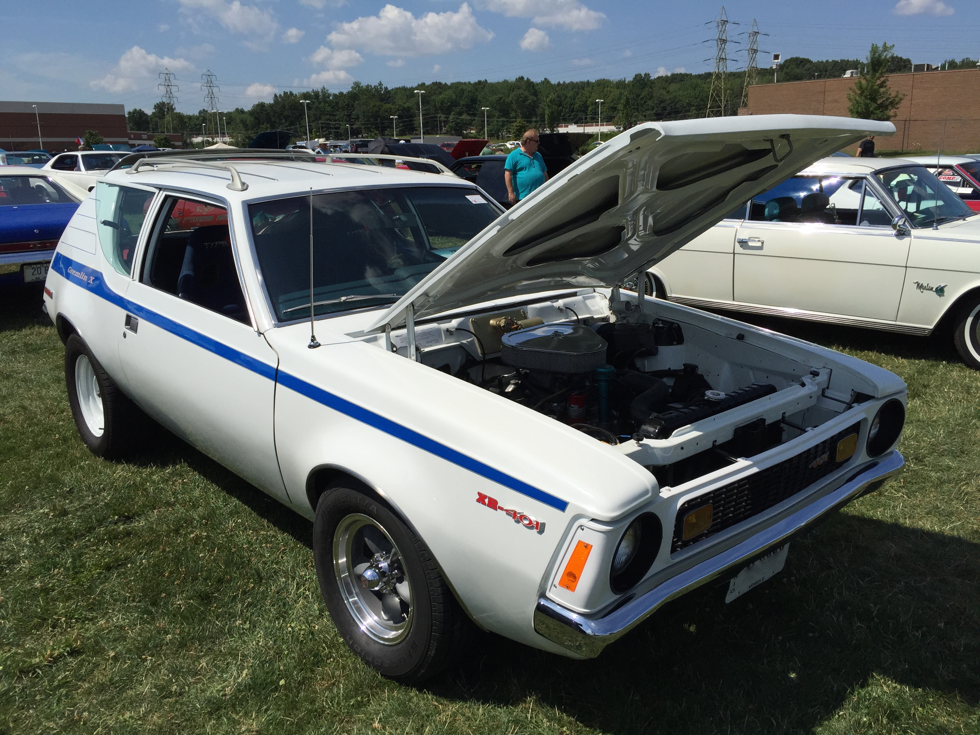 1972 AMC Gremlin built as Randall 401-XR modification with 6.6 L V8 engine. The Randall AMC dealership in Mesa, Arizona, had American Motors' endorsement to replace 304 V8 (5.0 L) powered Gremlins with a 401 engine during 1972, 1973, and 1974. They were designed for maximum performance and also made for customer-specific customizing. Photograph taken at the American Motors Owners Association (AMO) car show that was part of the annual convention held July 2015 near Cleveland, Ohio.